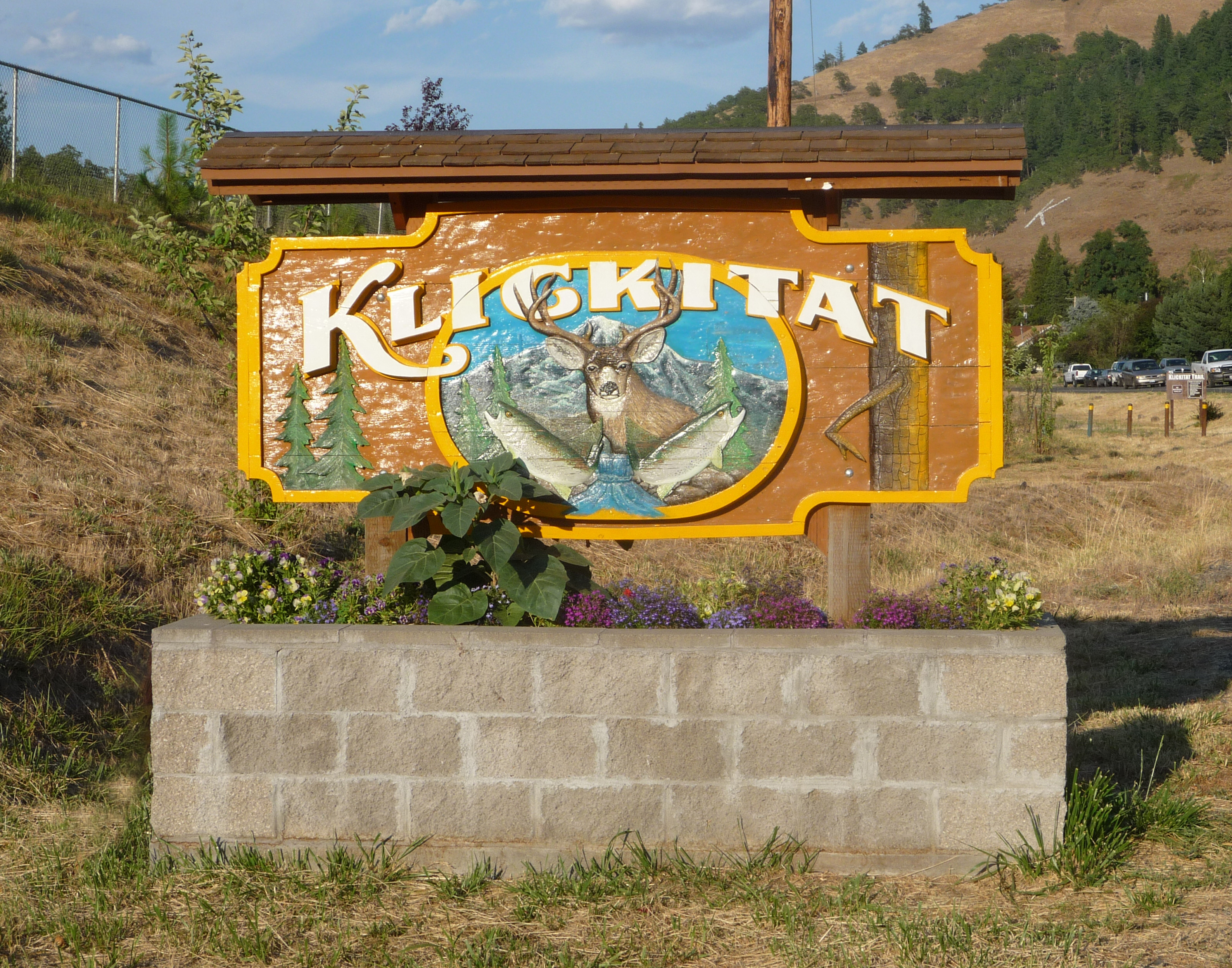 Sign at the edge of town.